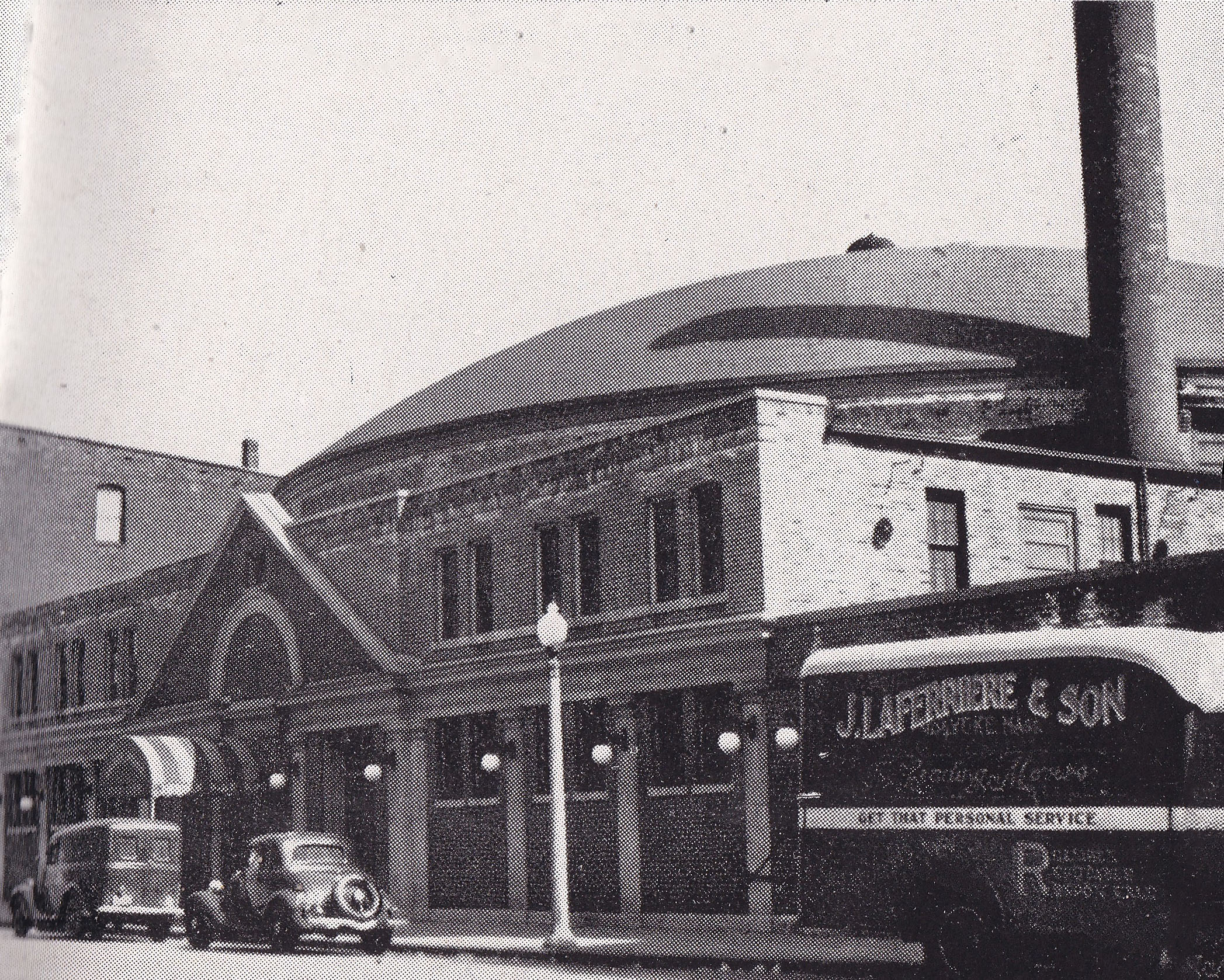 The Valley Arena as it appeared during World War II, in a pamphlet published by the American Legion for soldiers overseas.